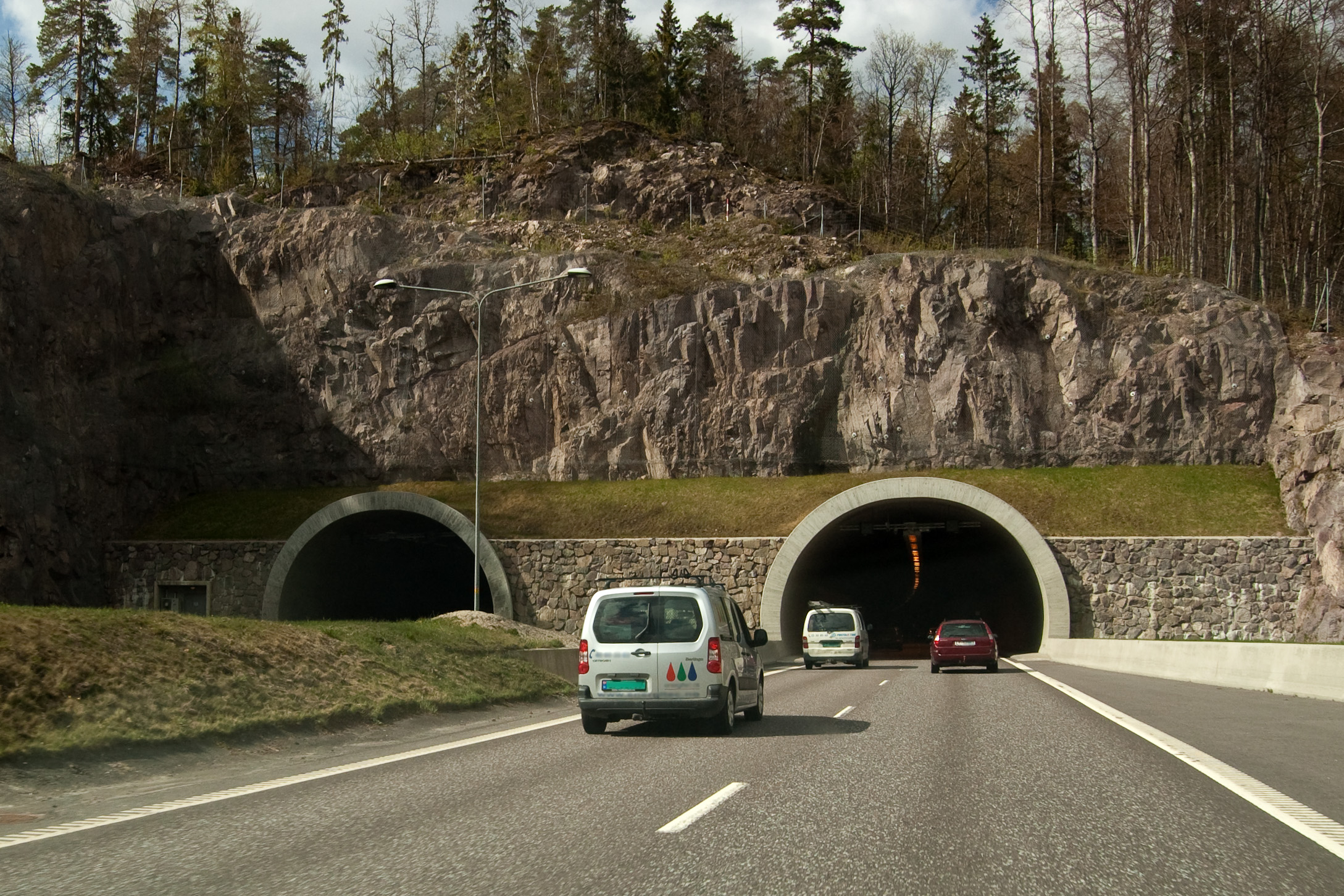 Flår tunnel on national road E18 in Re, Vestfold, Norway.